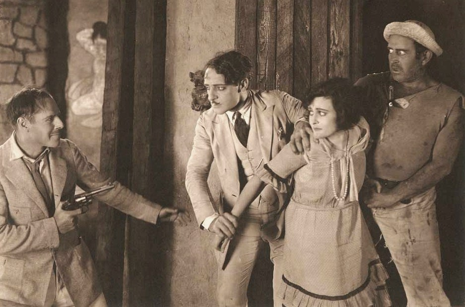 L. to R. : Jack Holt, Jean De Briac, Sylvia Breamer, and Clarence Burton in The Man Unconquerable (1922) - original image cropped (see source).